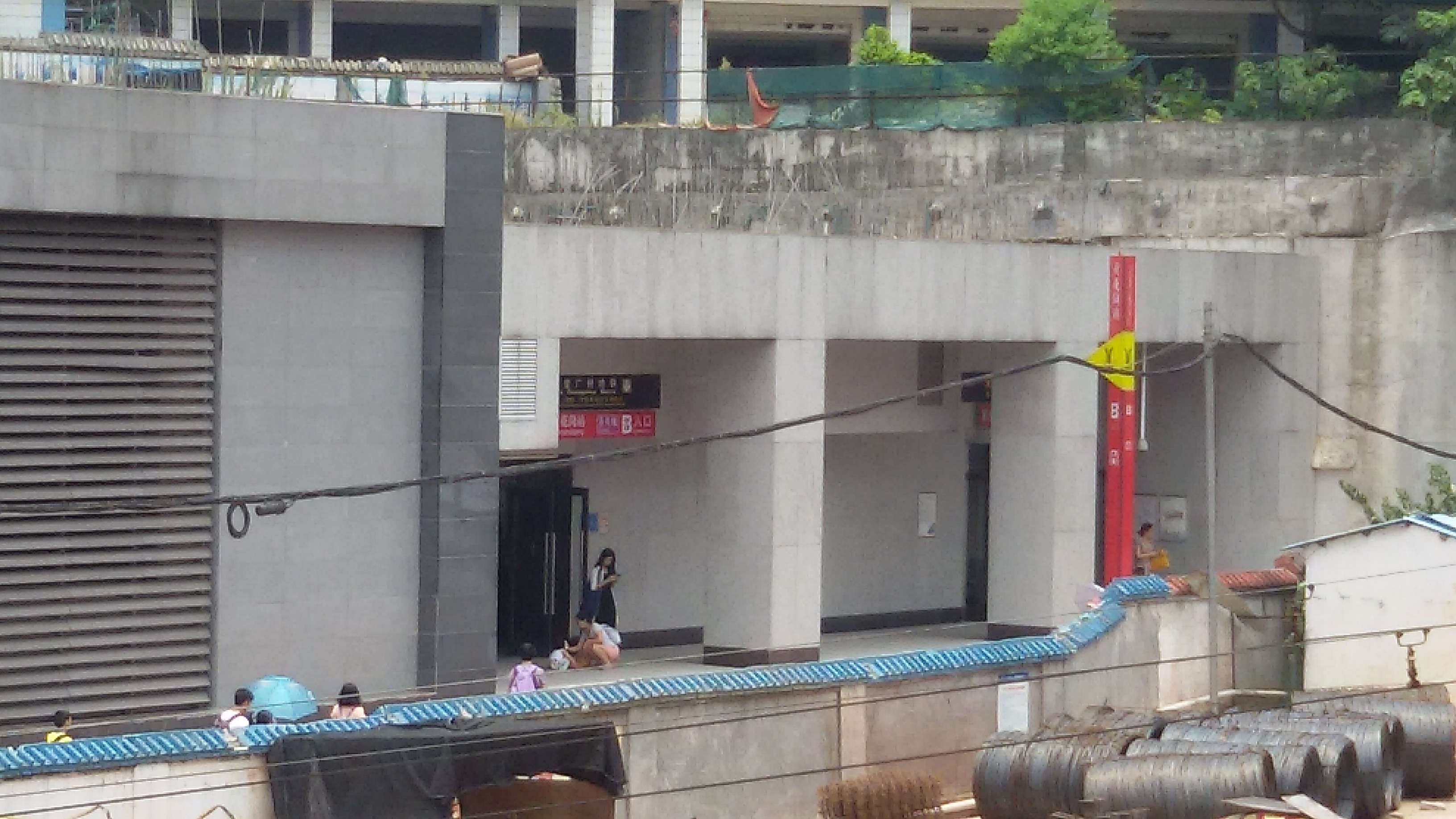 Exit B for Huanghuagang Station, Guangzhou Metro. 粵語: 廣州地鐵，黃花崗站嘅B出入口。